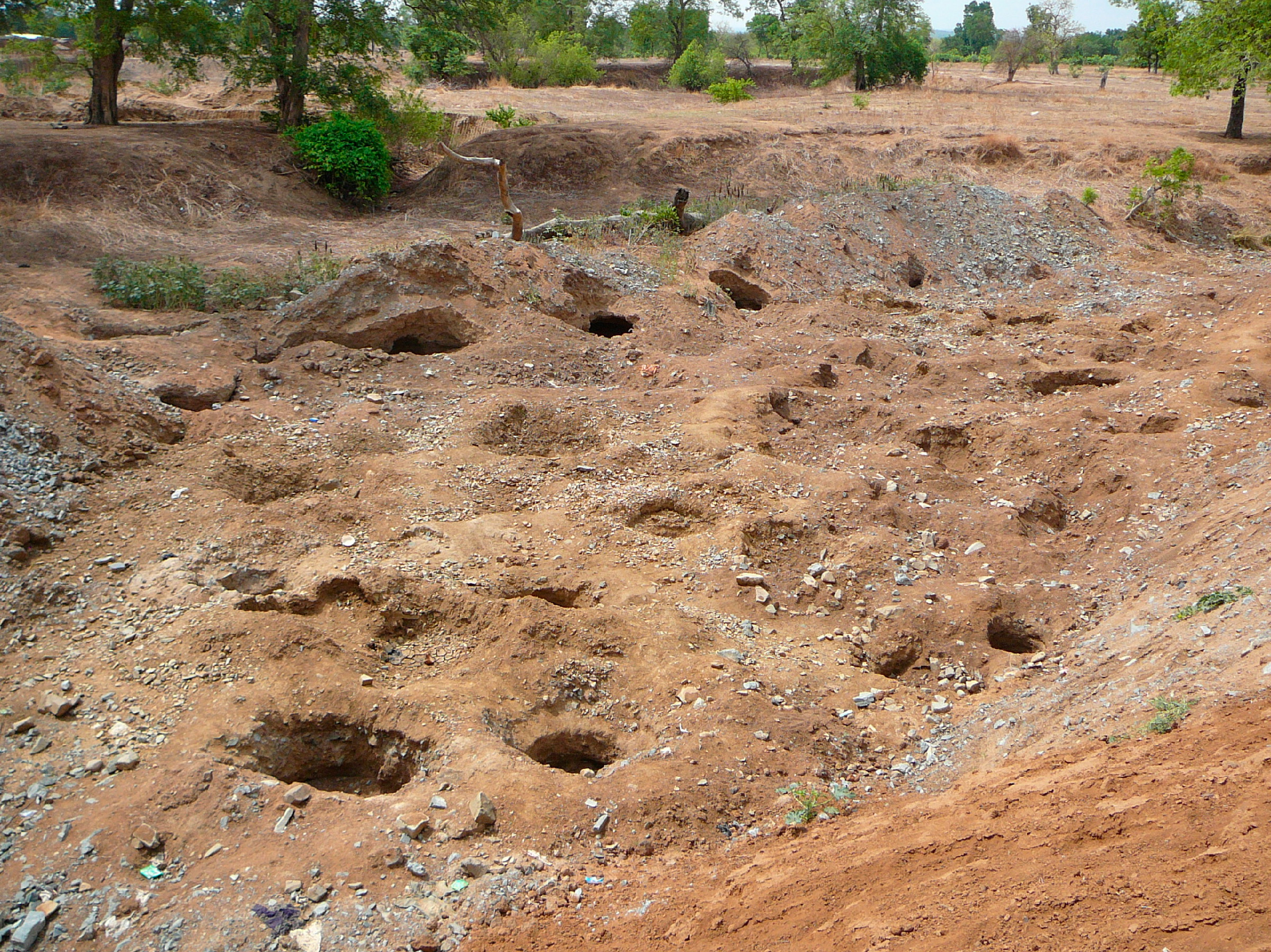 capture from Integrated Assessment of Artisanal and Small-Scale Gold Mining in Ghana—Part 2: Natural Sciences Review, Figure 12 illustration of altered nature and vegetation